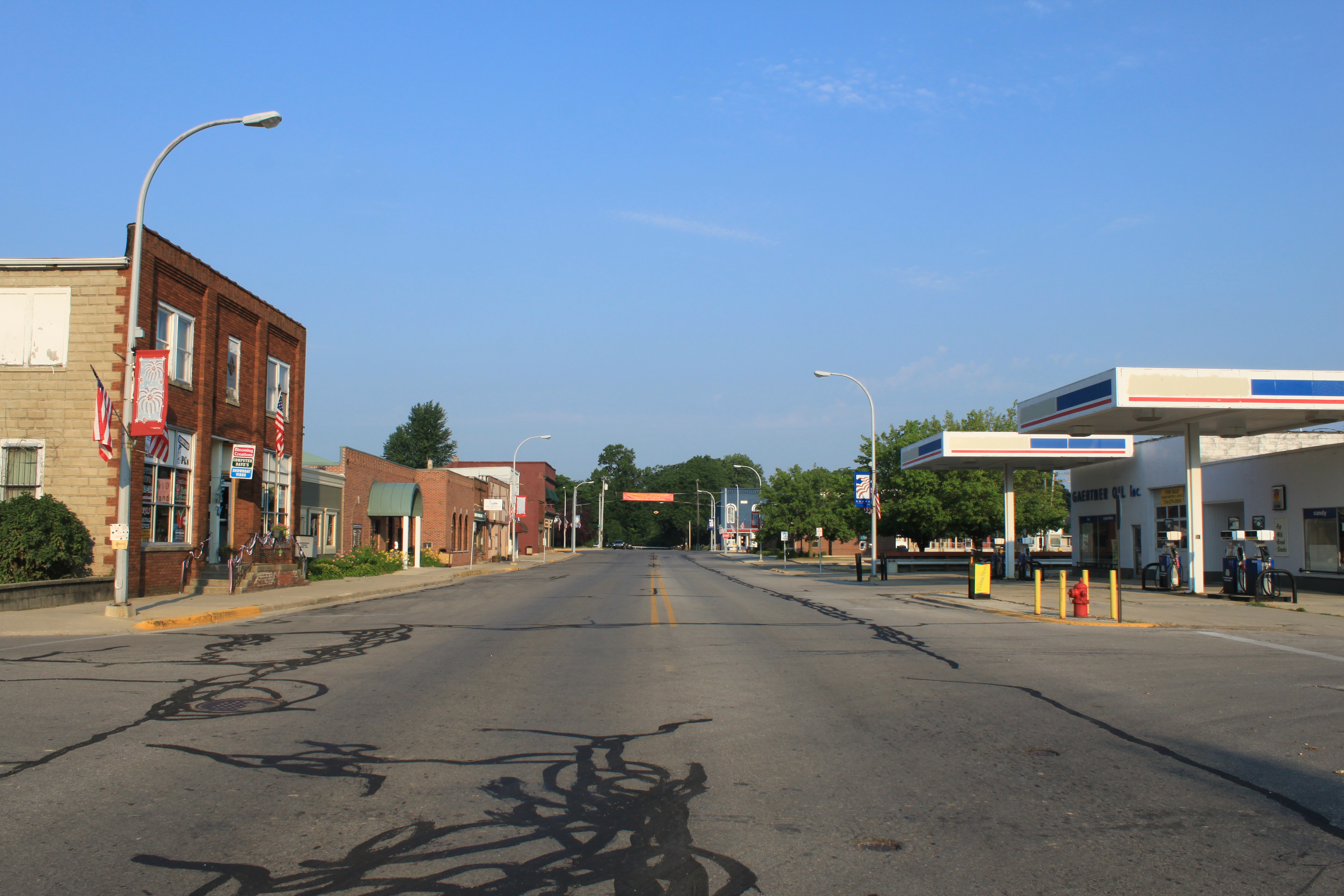 East Center Street, Petersburg Michigan